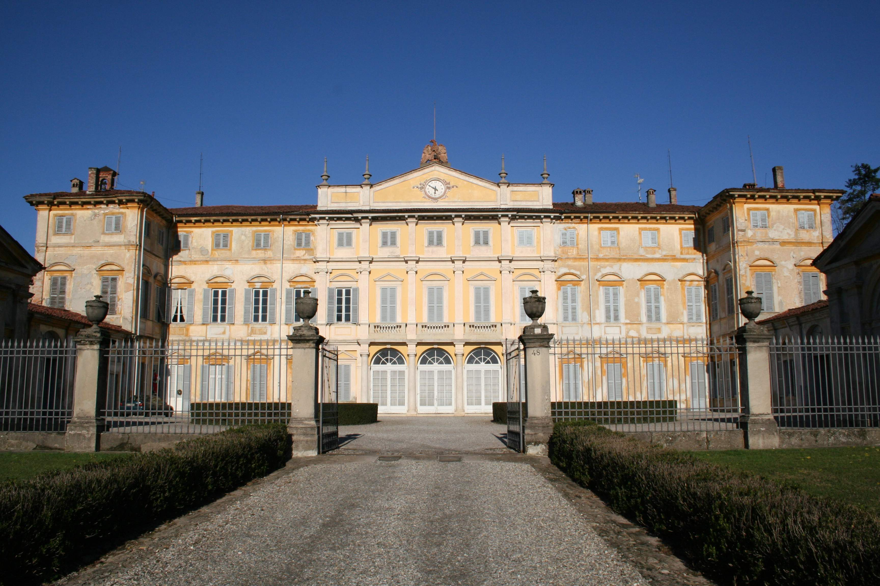 Ponte San Pietro is a municipality in Bergamo province in the Lombardy region, Italy.